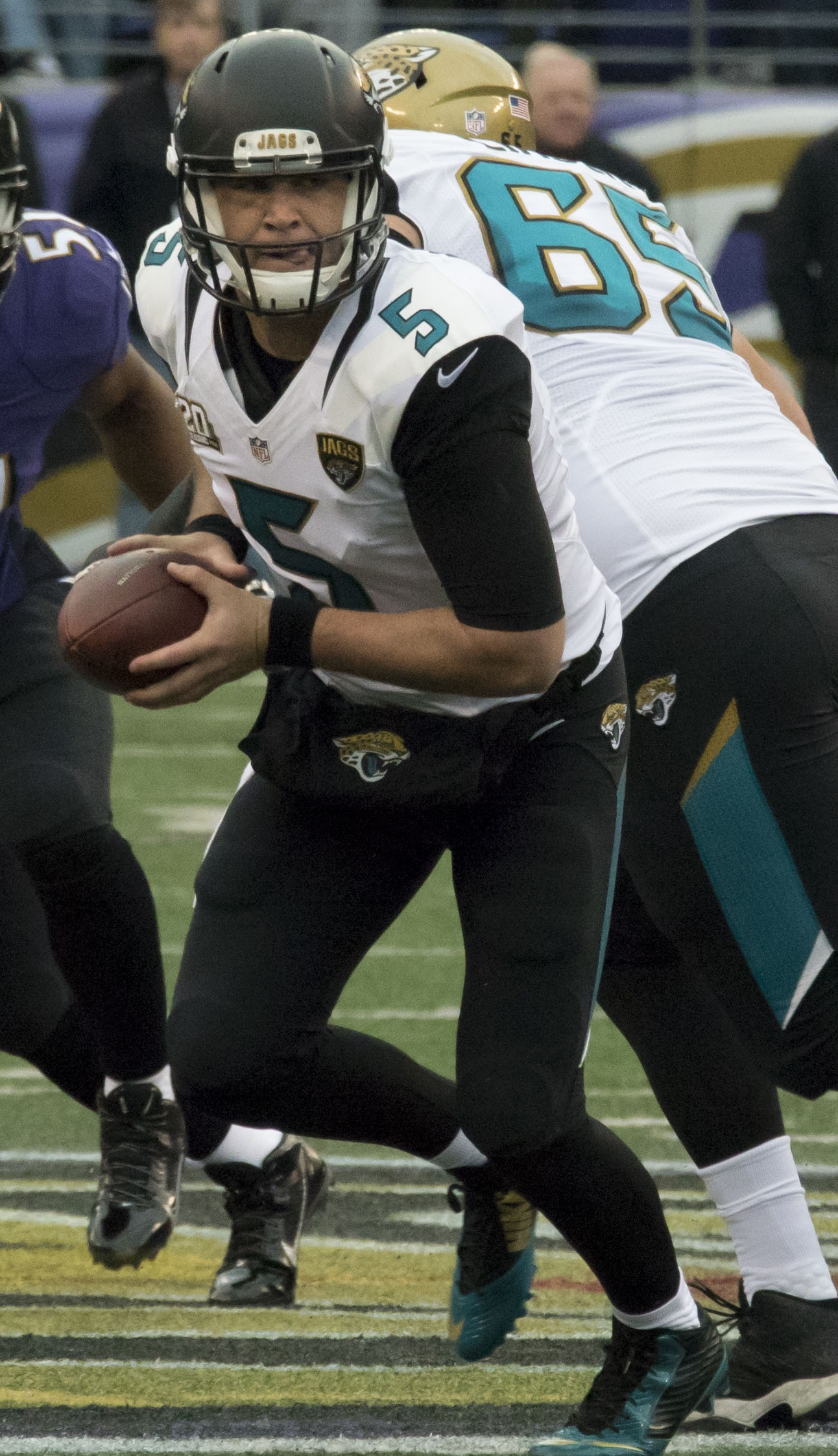 Jaguars at Ravens 12/14/14